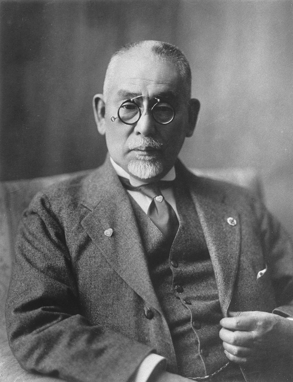 Portrait of Goto Shinpei (後藤新平, 1857 – 1929)